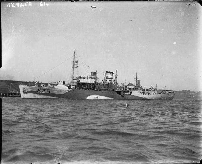 Photograph of Flower class corvette HMS Azalea.